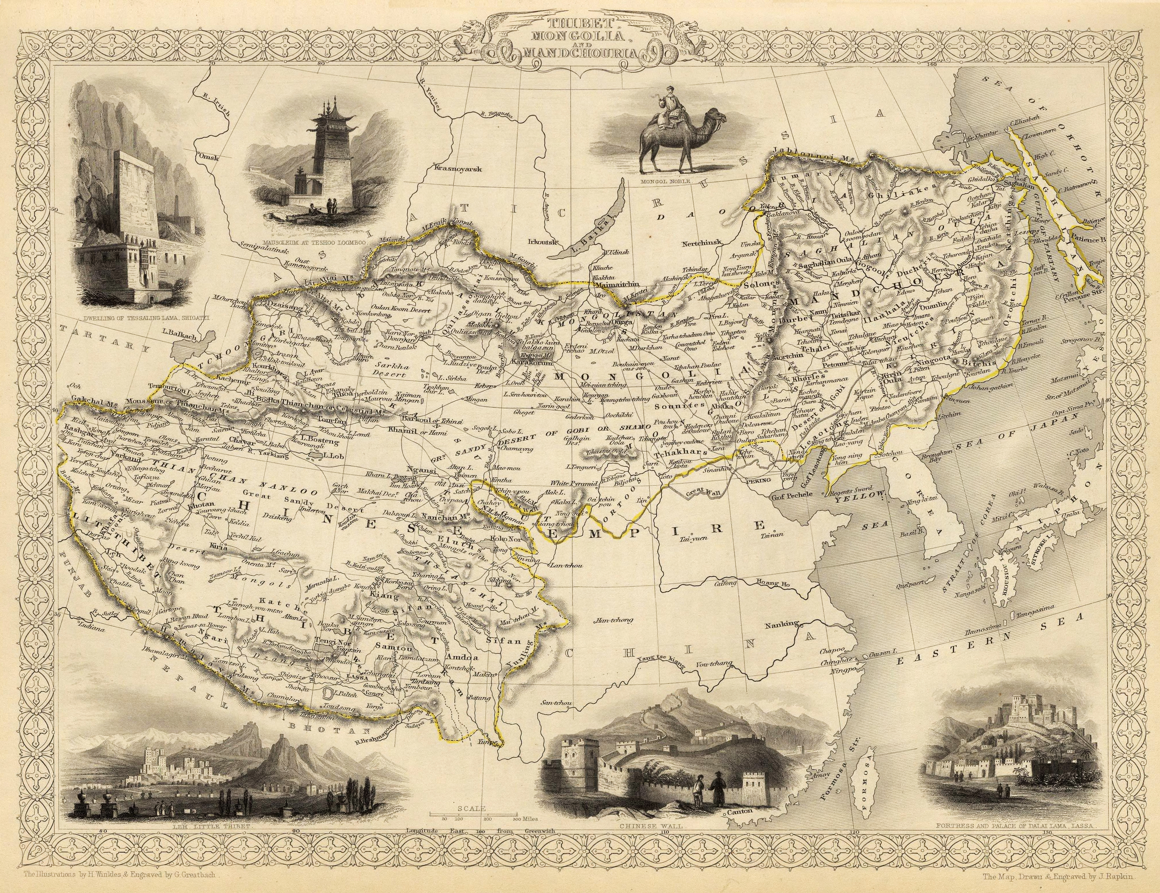 Map of the northern and western part of the Chinese Empire - "Thibet, Mongolia, and Mandchouria". The borders are shown as per the 1686 Treaty of Nerchinsk. (They were to be changed drastically in 1858-60, by treaty of Aigun and subsequent agreements). The main Russian center in Transbaikalia is still Nerchinsk, rather than Chita. The outline of Sakhalin Island is already shown fairly correctly, but the body of water separating it from the mainland is still labeled "Gulf of Tartary" (rather than '"Strait).